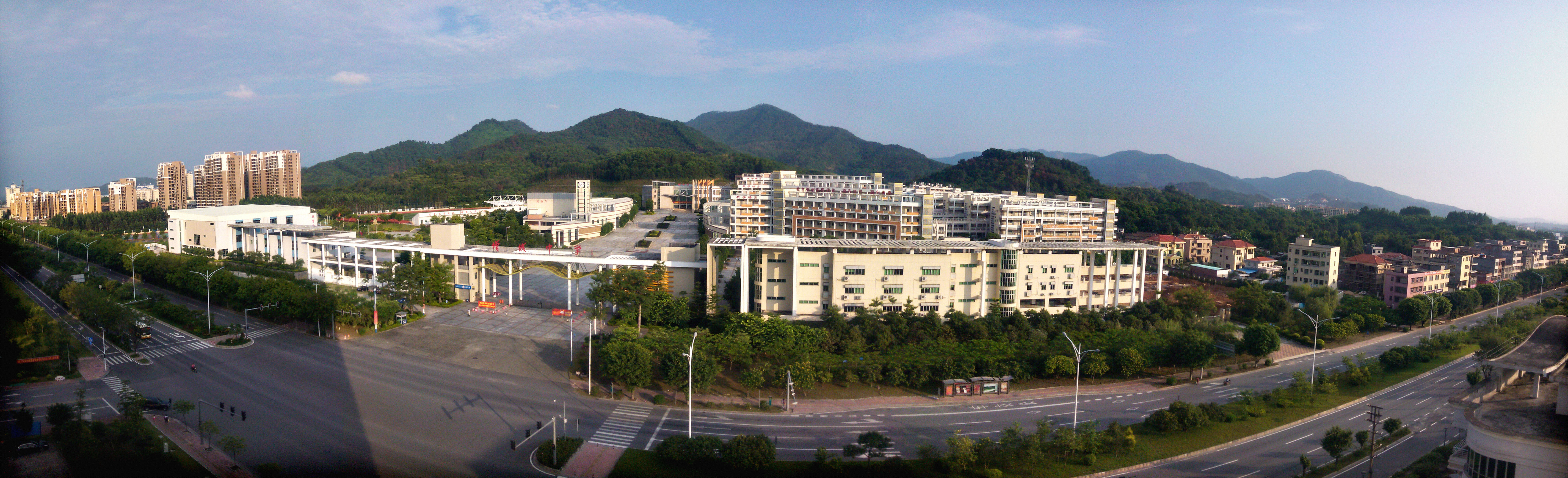 This is the photo of zengcheng middle school